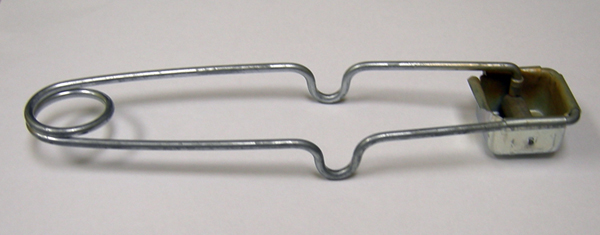 Fire striker used for laboratory gas burners